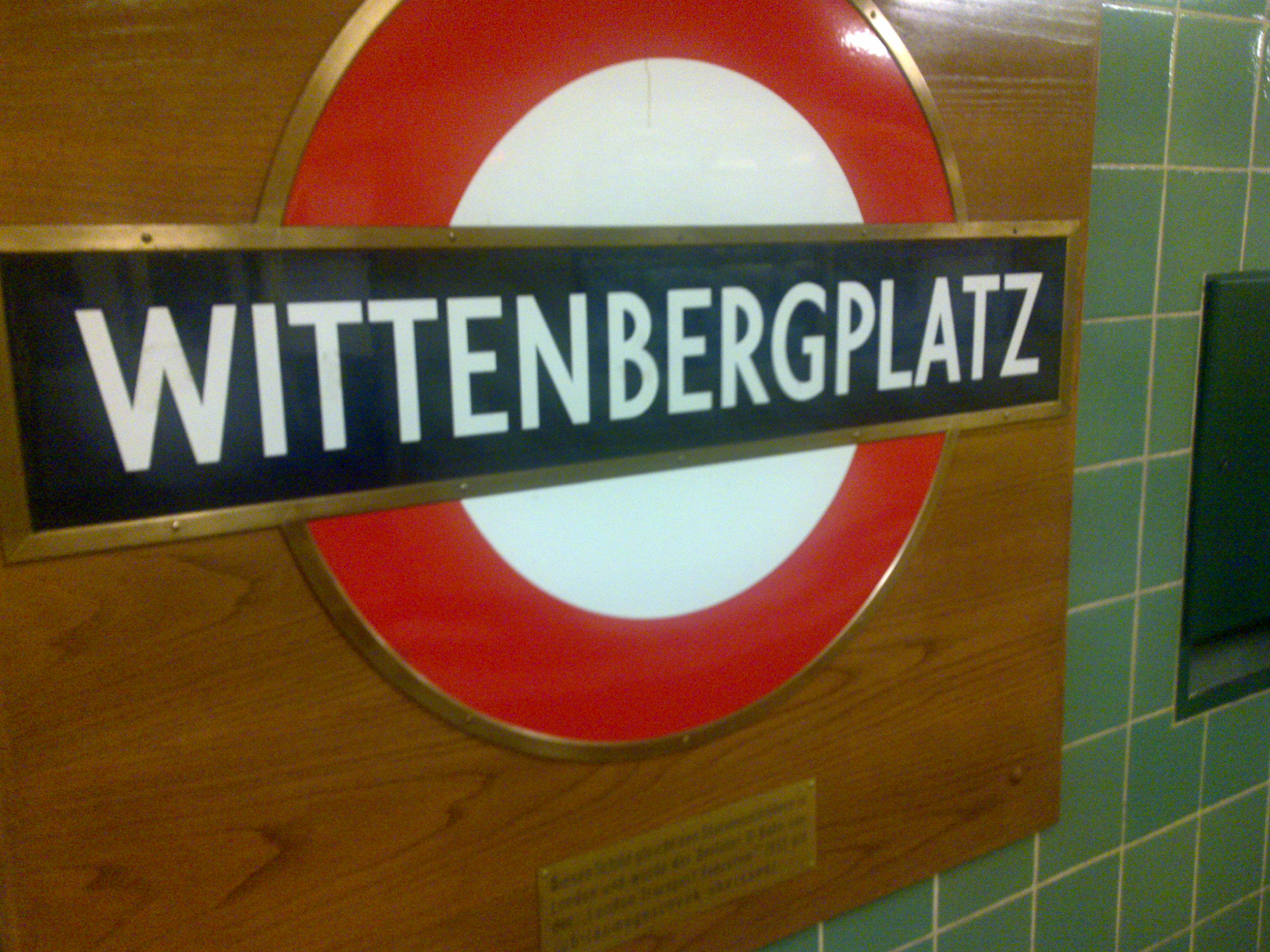 London Underground style sign at Wittenbergplatz U-Bahn station in Berlin, presented by London Transport to celebrate the 50th anniversary of the Berlin U-Bahn network